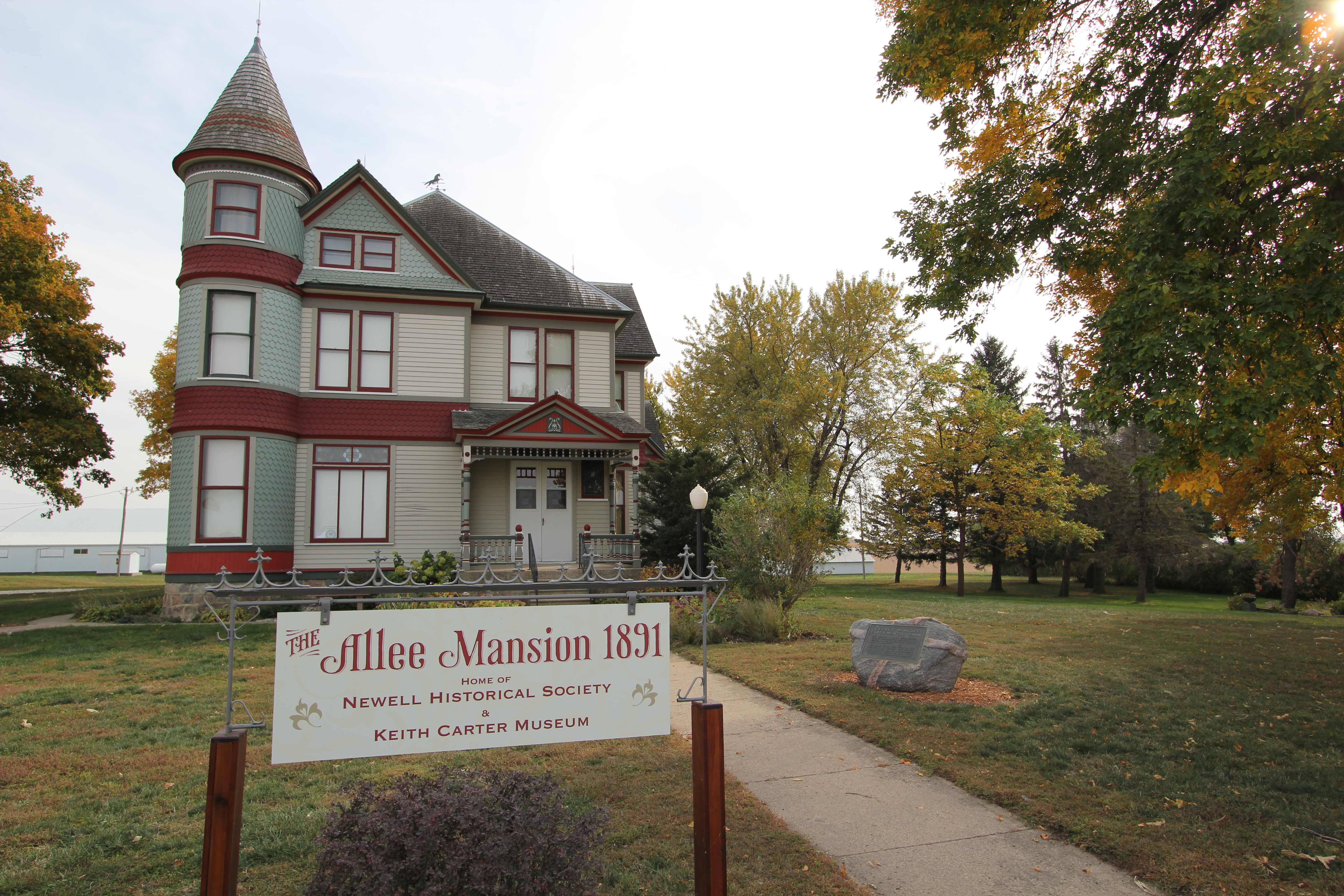 Allee Mansion located near Newell, Iowa, built in 1891.